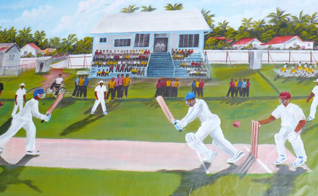 Cricket Match at Community Centre, Enterprise, Guyana